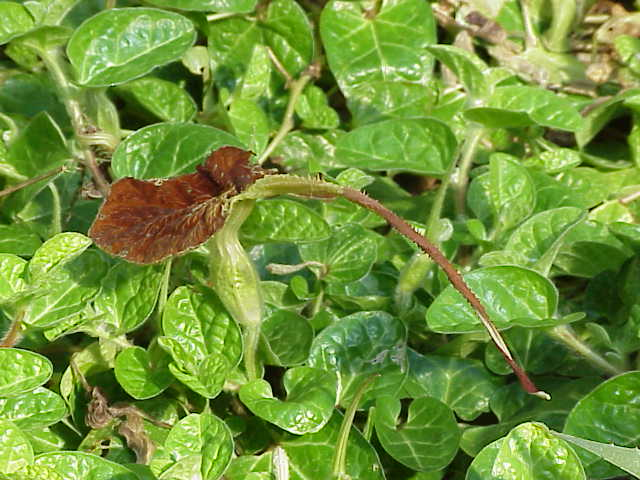 Species: Aristolochia lindneri Family: Aristolochiaceae Image No. 8